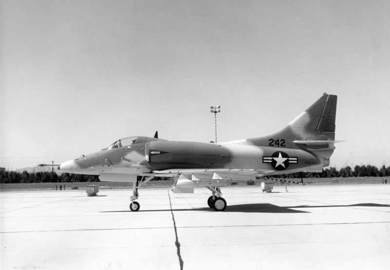 PictionID:45403887 - Catalog:16_006644 - Title:First Douglas A-4H Skyhawk for Israel, Oct. 1967 Harry Gann photo - Filename:16_006644.TIF - Image from the Ray Wagner Collection. Ray Wagner was Archivist at the San Diego Air and Space Museum for several years and is an author of several books on aviation --- ---Please Tag these images so that the information can be permanently stored with the digital file.---Repository: San Diego Air and Space Museum